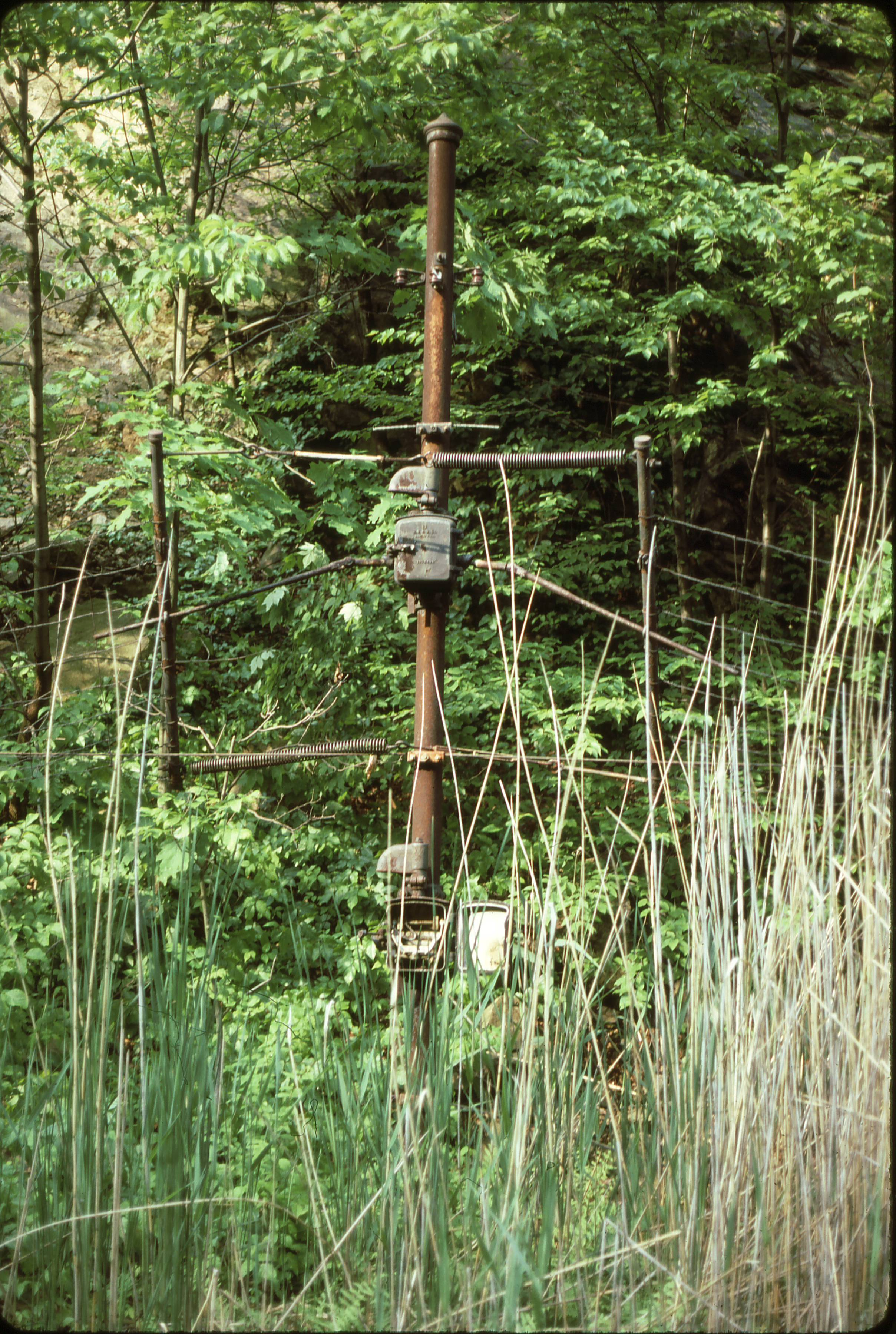 Electronic Rockslide detector on Lackawanna Cut-Off rail line in New Jersey in 1988.